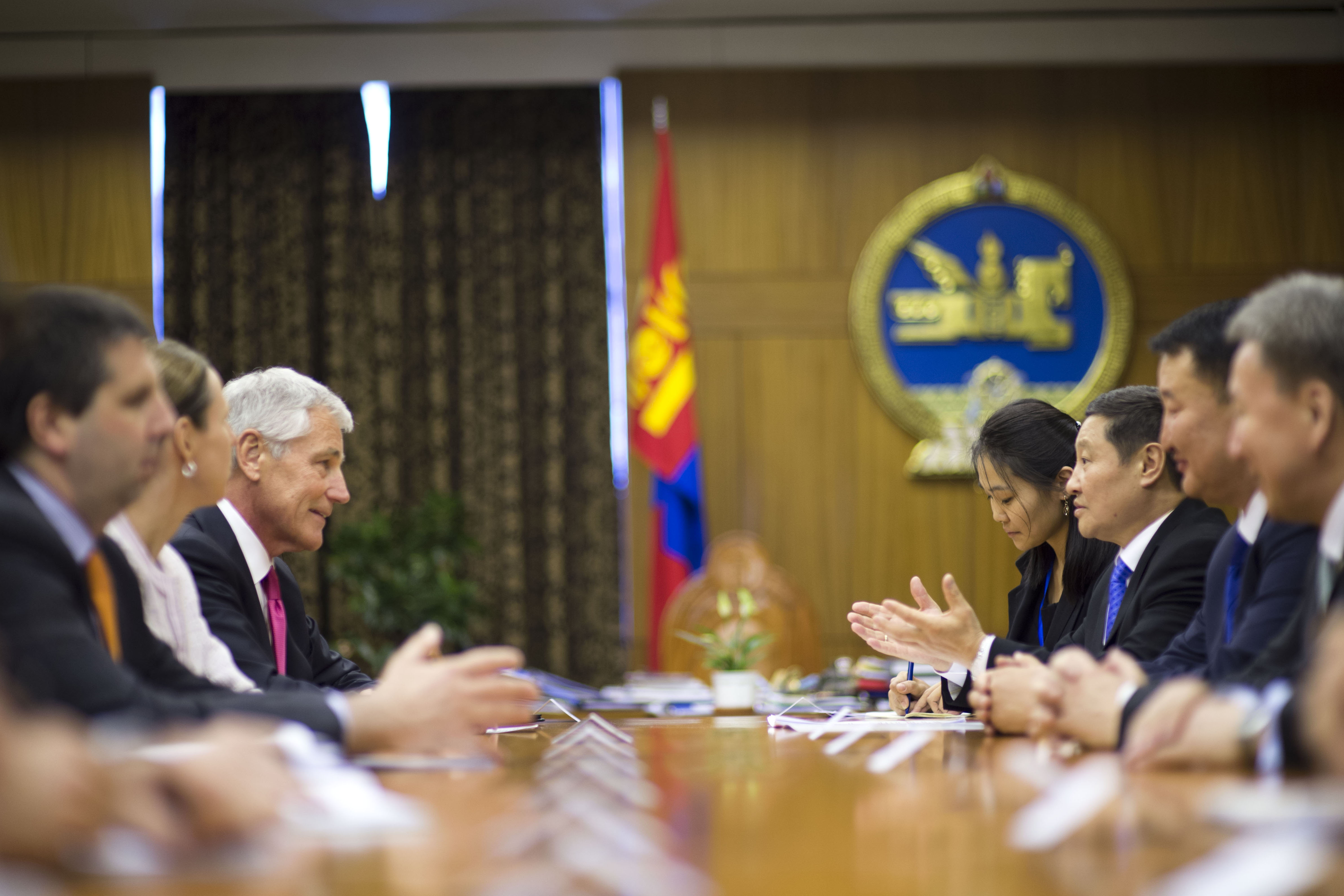 U.S. Defense Secretary Chuck Hagel, left, meets with Mongolian Prime Minister Norov Altankhuyag in Ulaanbaatar, Mongolia, April 10, 2014. Hagel met with his Mongolian counterparts to discuss issues of mutual importance.